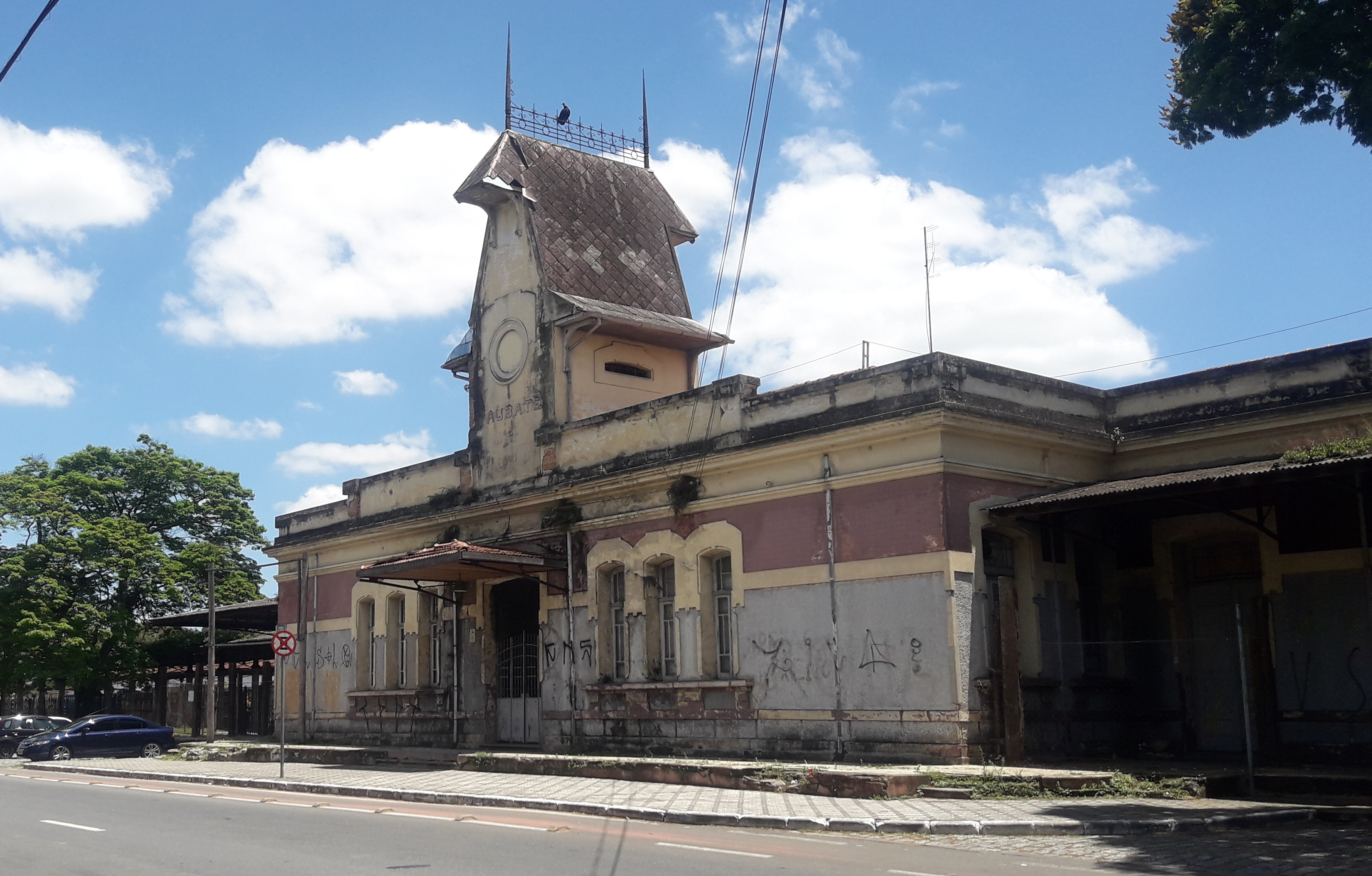 The Taubaté Train Station, built in 1876, reconstructed in 1923, deactivated in 1998. Taubaté, São Paulo, Brazil.